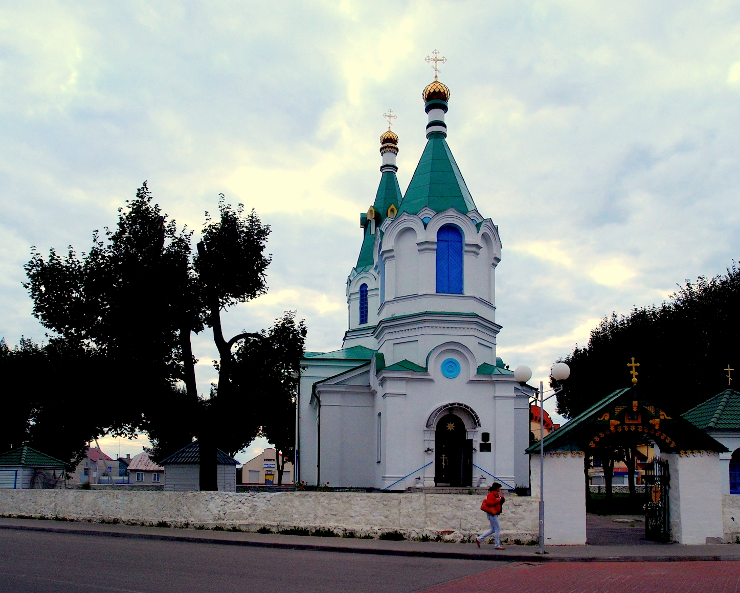 Orthodox church of the Protection of the Holy Virgin in Maladziečna Old Town, Belarus.